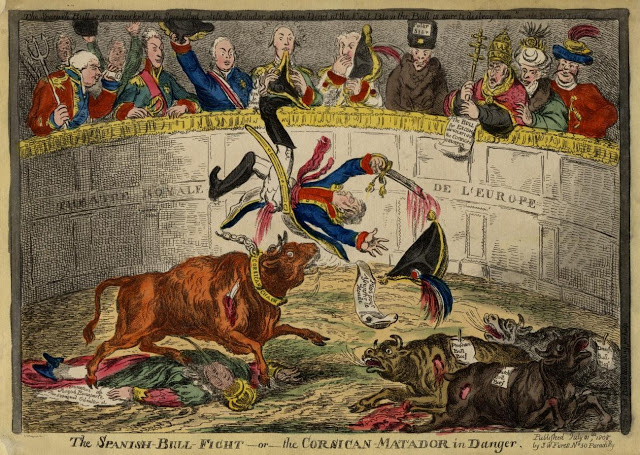 The Spanish Bull-fight or the Corsican-Matador (Napoleón) in Danger